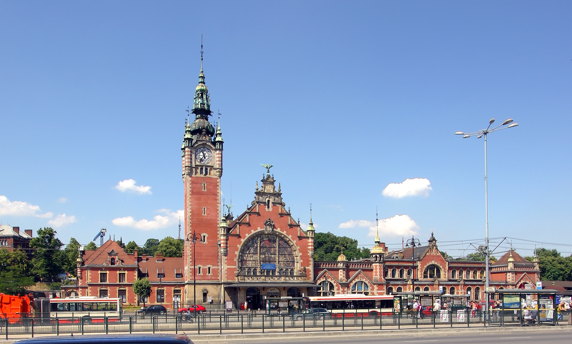 Gdańsk Main Railway Station.